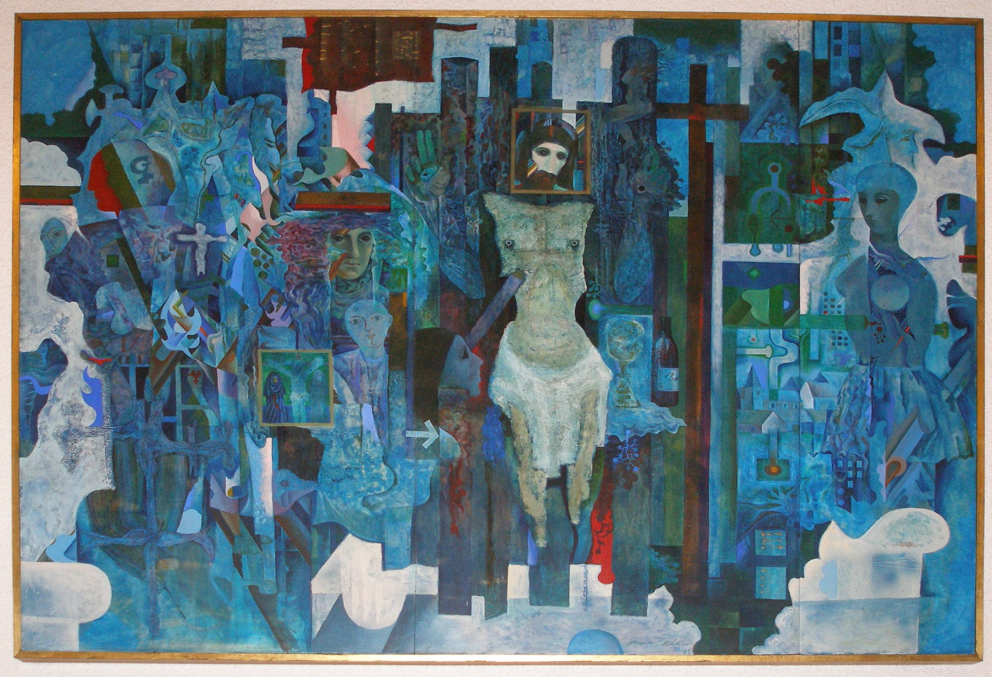 Picture on front wall in church at Jakkob's ladder.